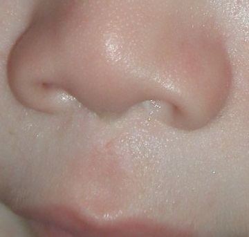 philtrum of a 6 month child with Fetal Alcohol Syndrome